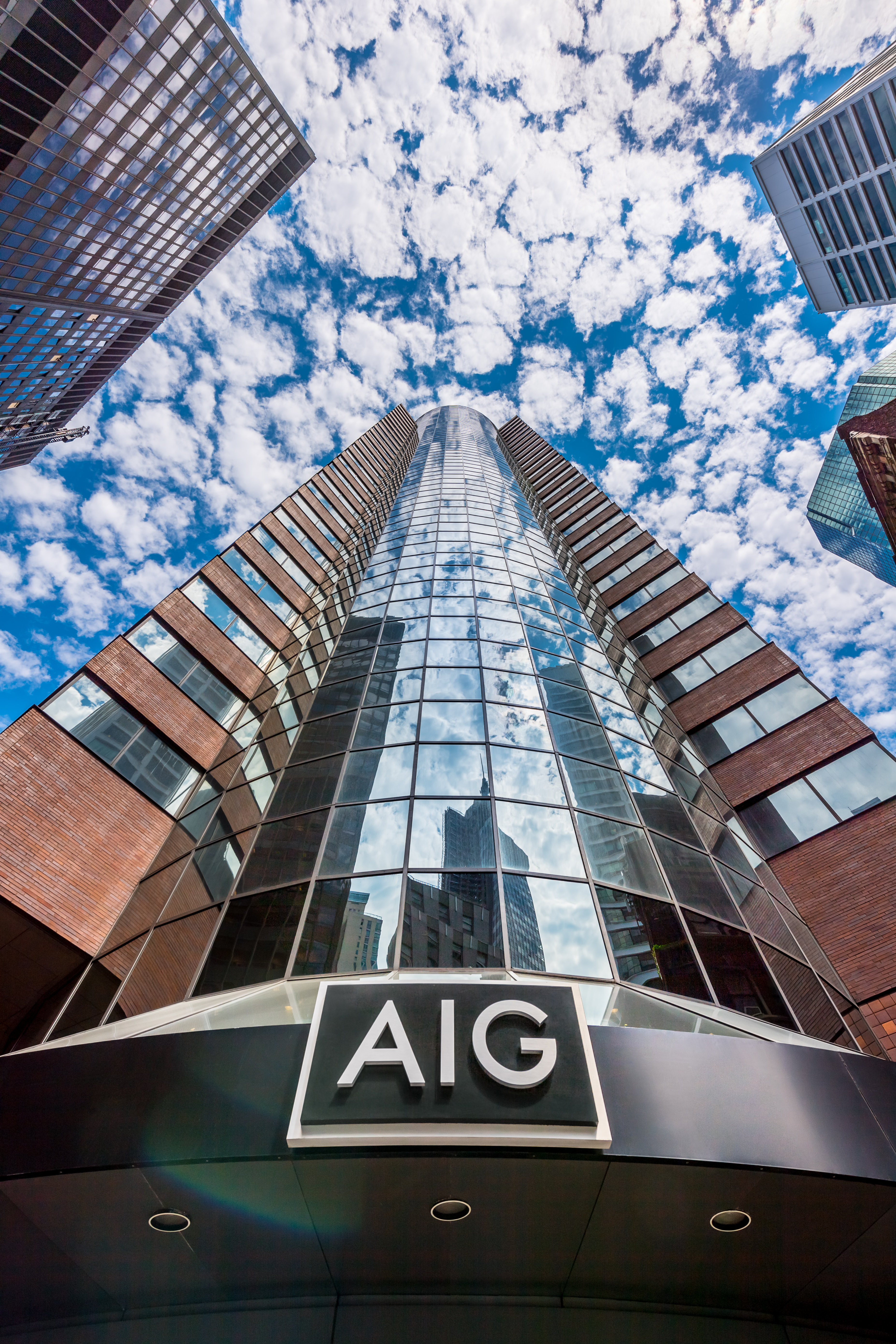 AIG Architecture; 175 Water Street, New York, NY. Construction 1981-83.